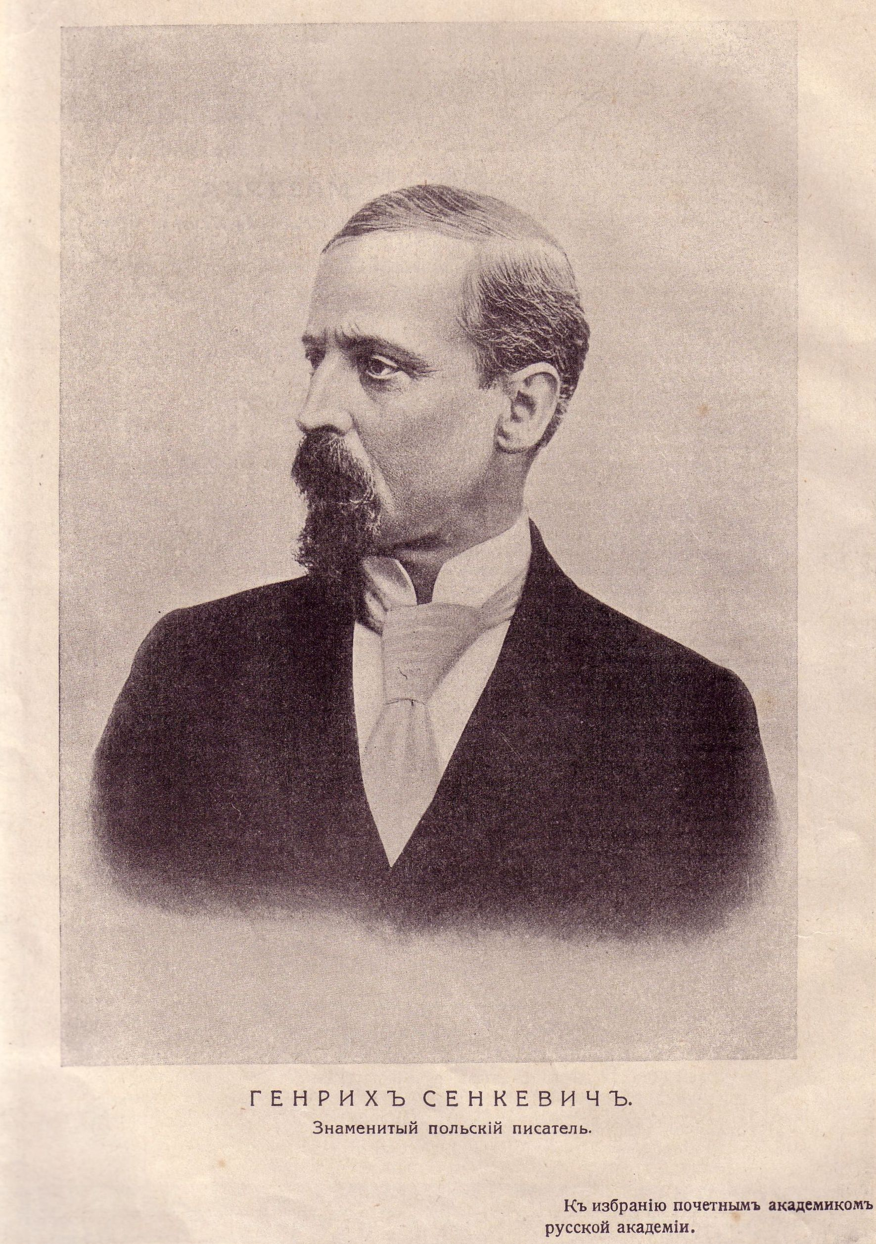 Henryk Sienkiewicz